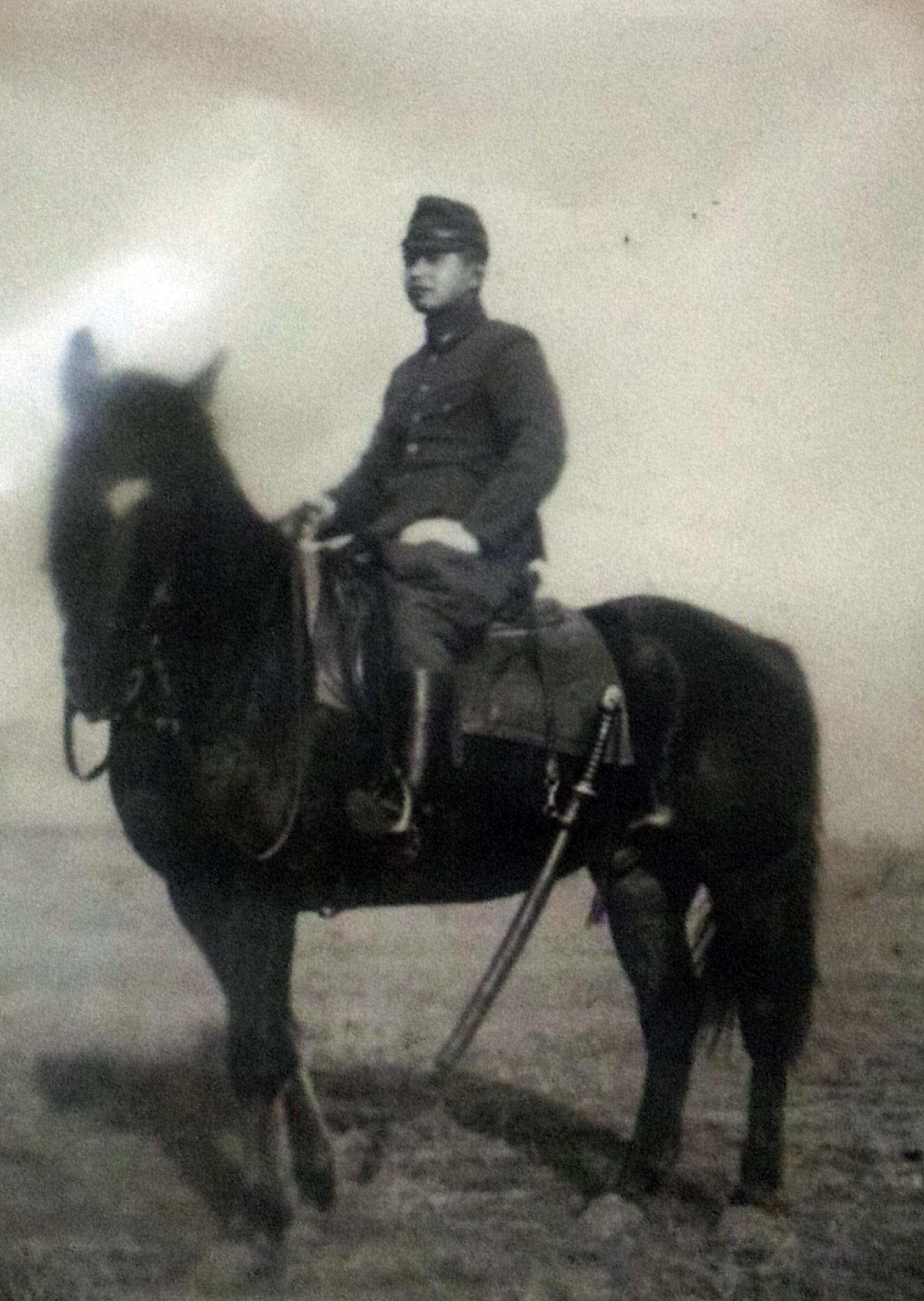 Imperial Japanese Army 4th Cavalry Brigade 26th Cavalry Regiment Motohiko Sakurai (Captain) in China